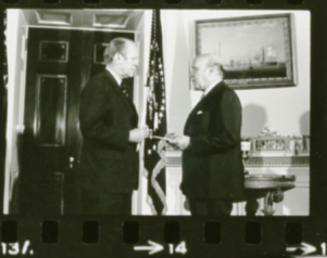 The photo contact sheet, identified as A0223 by the White House Photographic Office (WHPO), is housed at the Gerald R. Ford Presidential Library, a branch of the National Archives and Records Administration (NARA). This file is a 200 dpi photo contact sheet having images from roll of film A0223 of the August 9, 1974 - January 20, 1977 Gerald R. Ford White House Photographic Office Series A0001-A9999 and B0001-B2886 photographs. The date on the photo contact sheet is the date the roll of film was processed, not necessarily the date the photographs were taken. See table below for additional details.